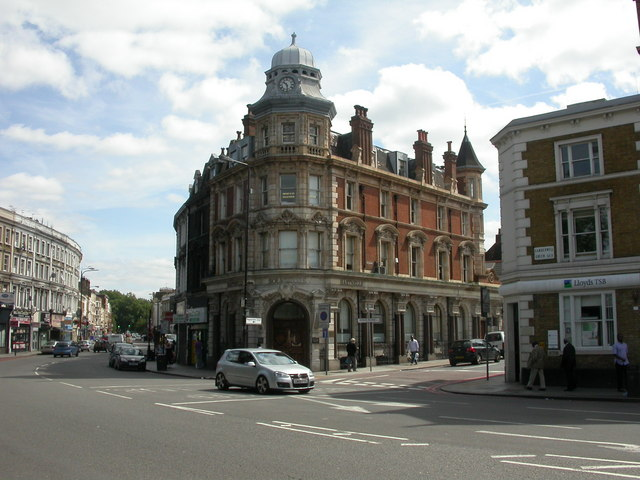 Camberwell, town centre The commercial centre of Camberwell, looking from the Green along Church Street.